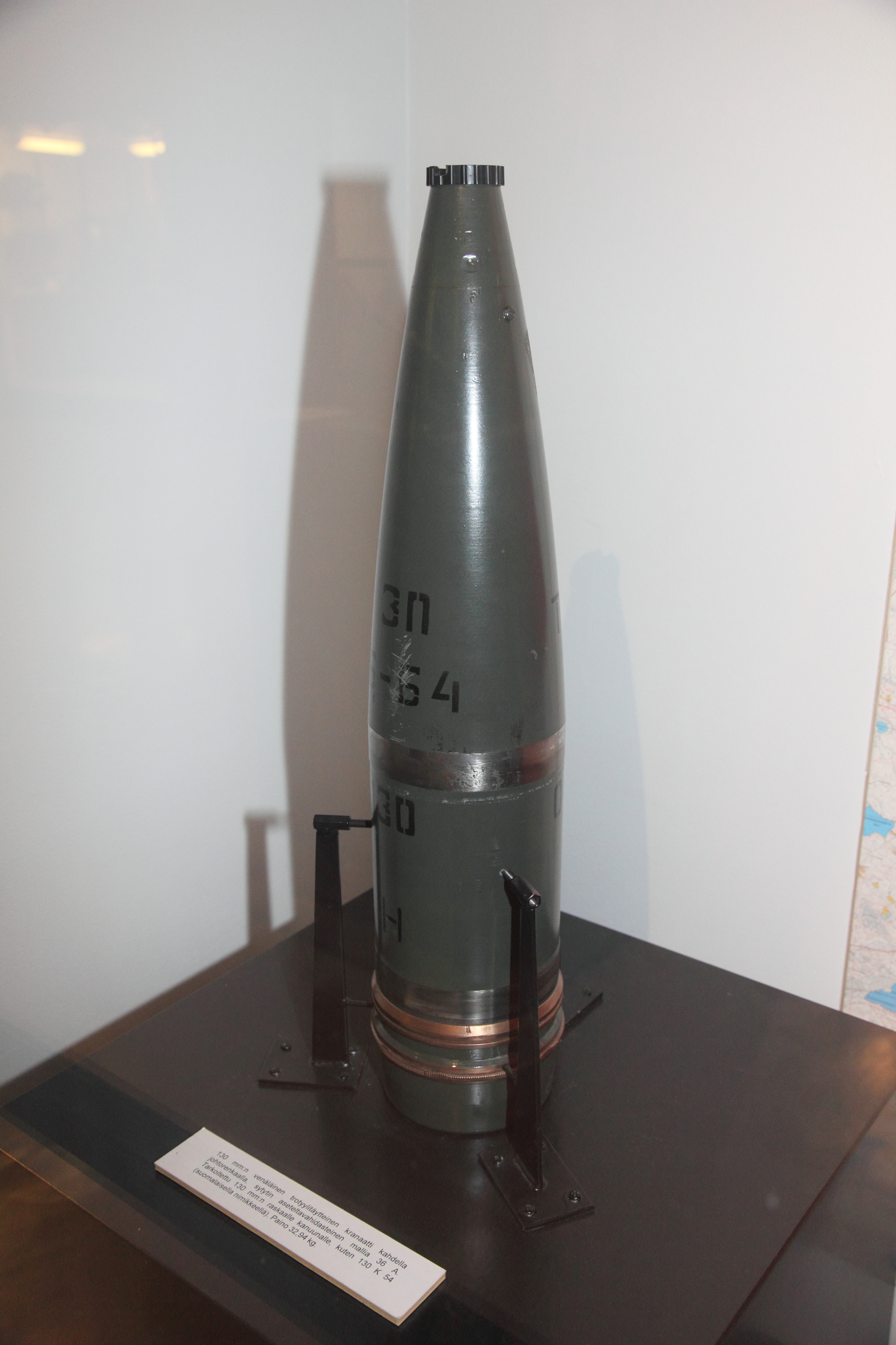 Soviet M-46 cannon 130 mm trotyl shell in Hämeenlinna artillery museum. Two driving bands, weight 32.94 kg.